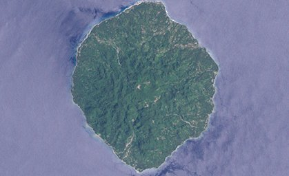 Savo island, Salomon Islands, Landsat 7